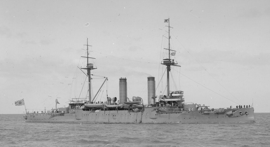 Japanese cruiser „Asama“, shows Japanese warship at sea and being towed by steam tug.